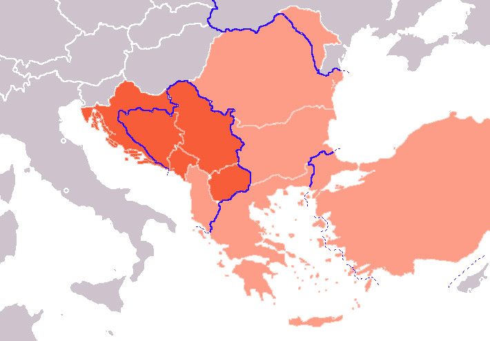 Regional Cooperation Council for Sout East Europe and Tukey (former Stability Pact for South East Europe) Pink: countries belonging to RCC but not to Yugosphere Orange: countries belonging to RCC and to Yugosphere Blue: European Union Borders